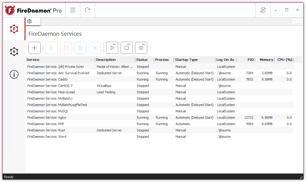 FireDaemon Pro 4 Screenshot